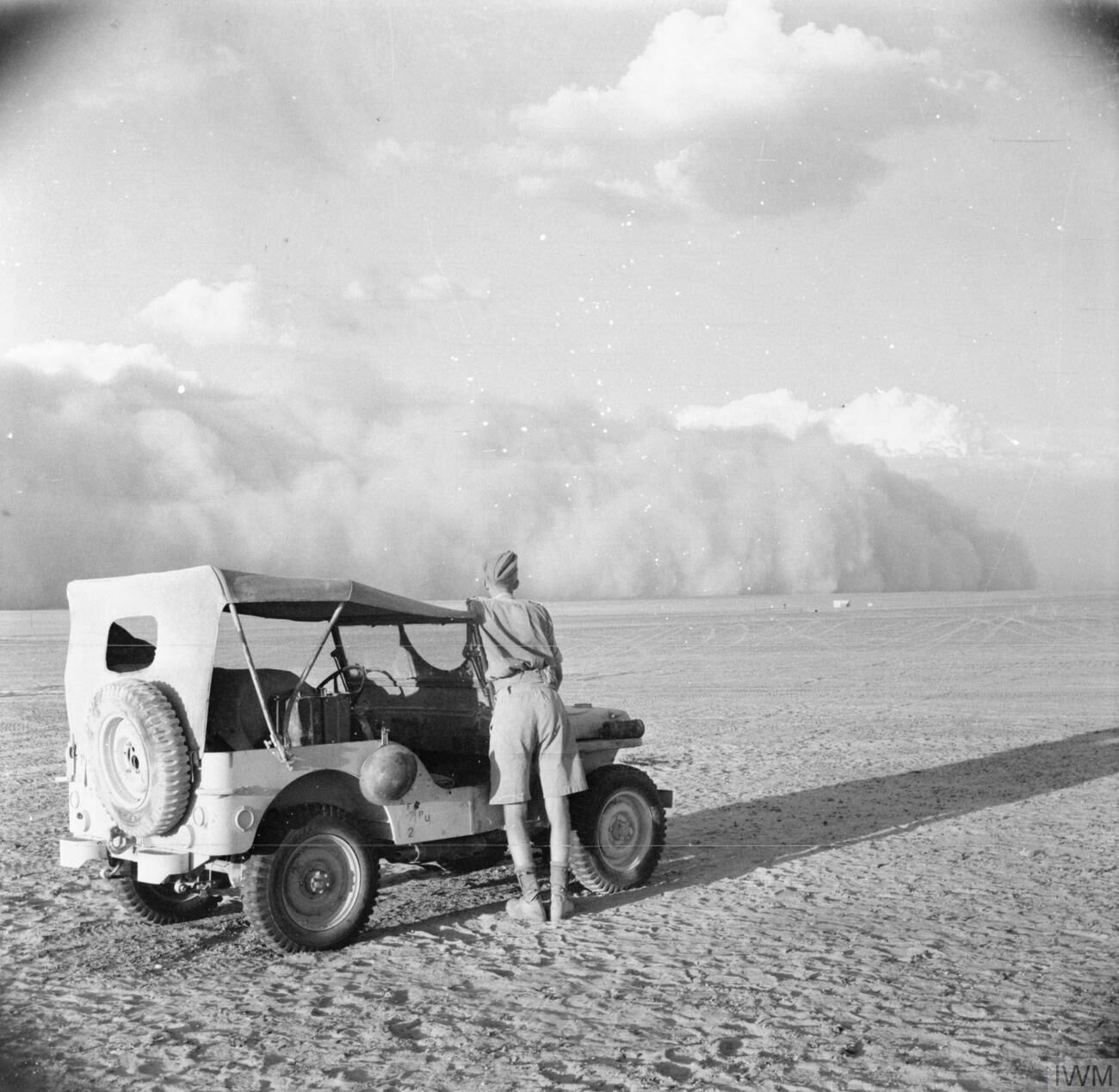 The British Army in North Africa 1942 A soldier watches an approaching sandstorm from beside his jeep, October 1942.